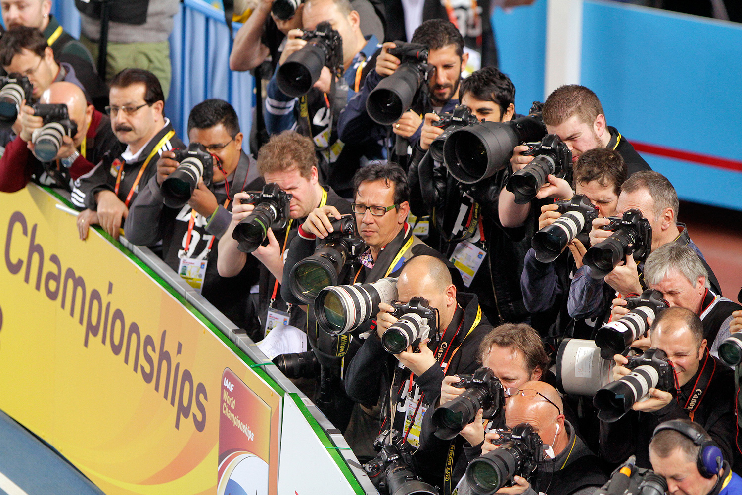 Photographer pool in 2012 IAAF World Indoor Championships